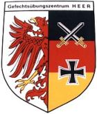 This file shows the internal coat of arms of Gefechtsübungszentrum Heer (GefÜbZH) of the Bundeswehr, the German Federal Defence Force. → more → help on abbreviations